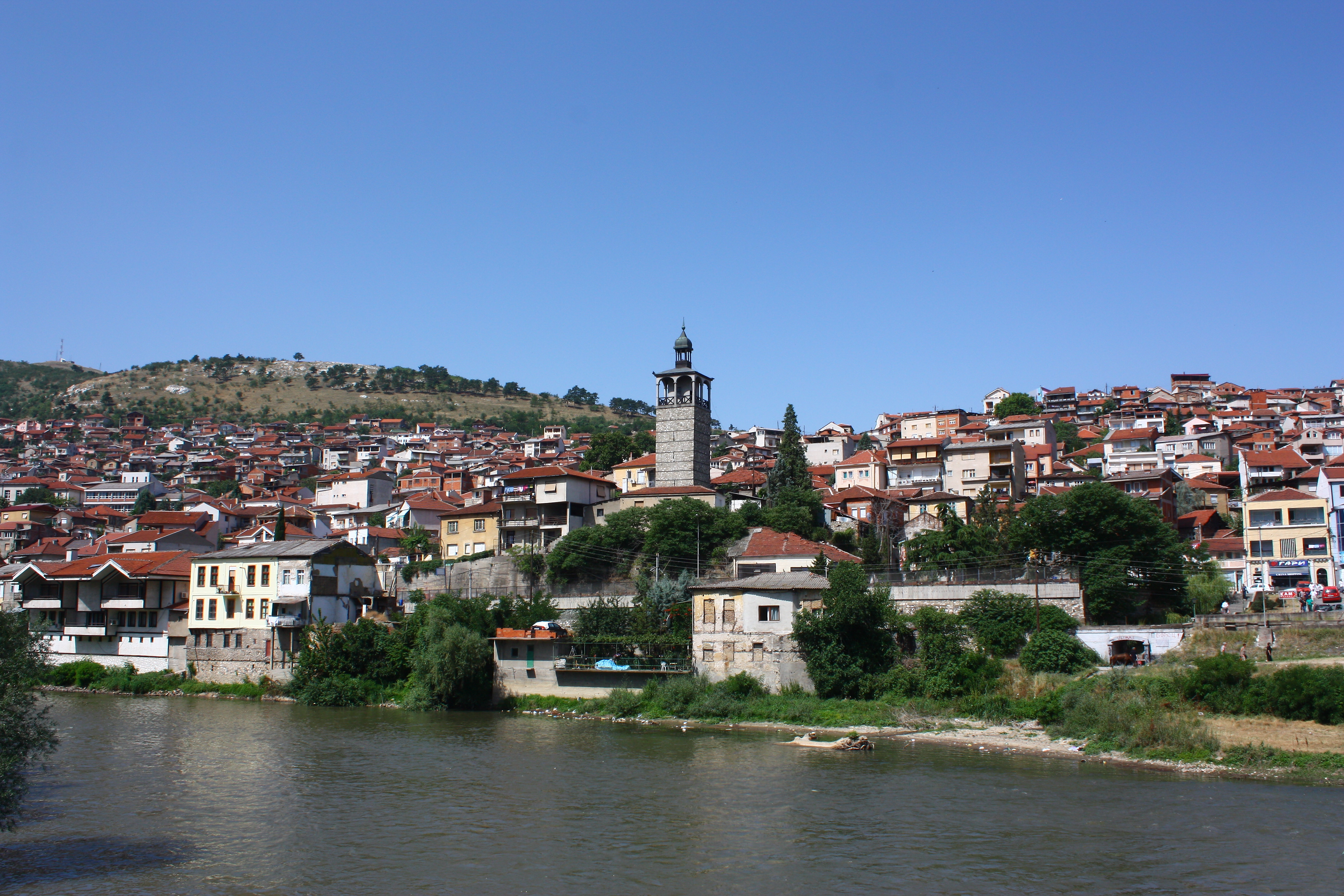 Veles, Macedonia